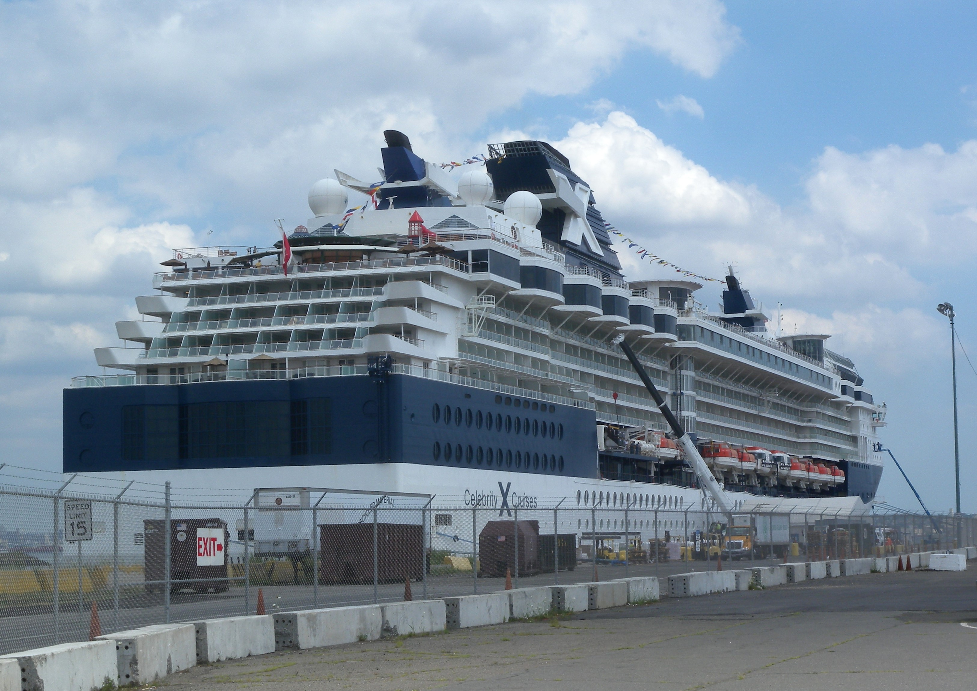 Looking east at midday with clouds gathering.